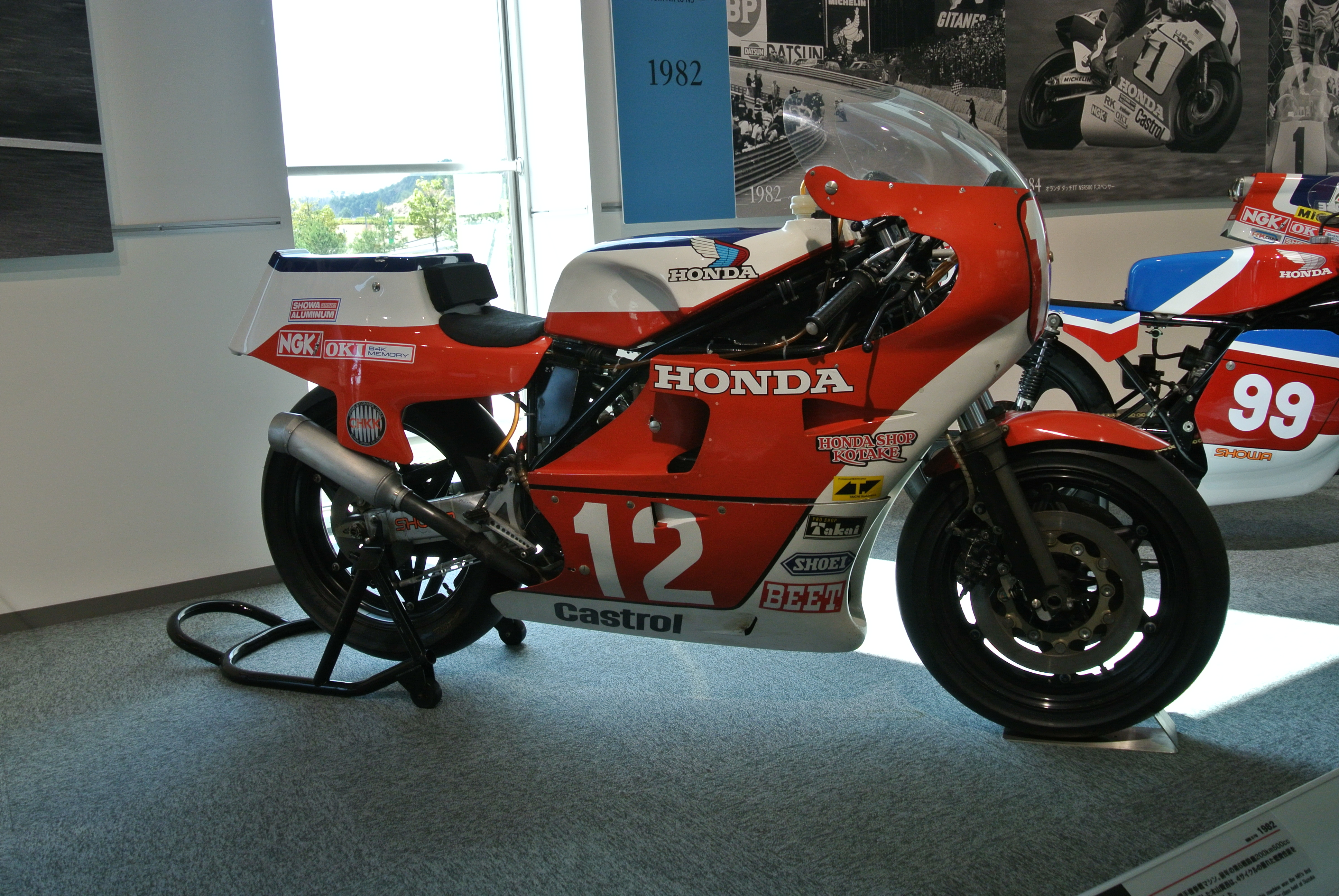 1982 Honda NR500 (2X) in the Honda Collection Hall.